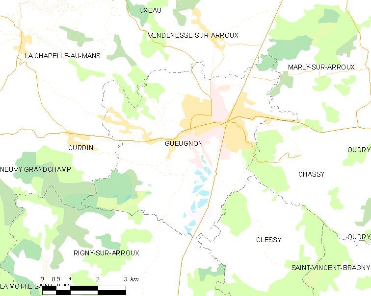 Map of French municipality